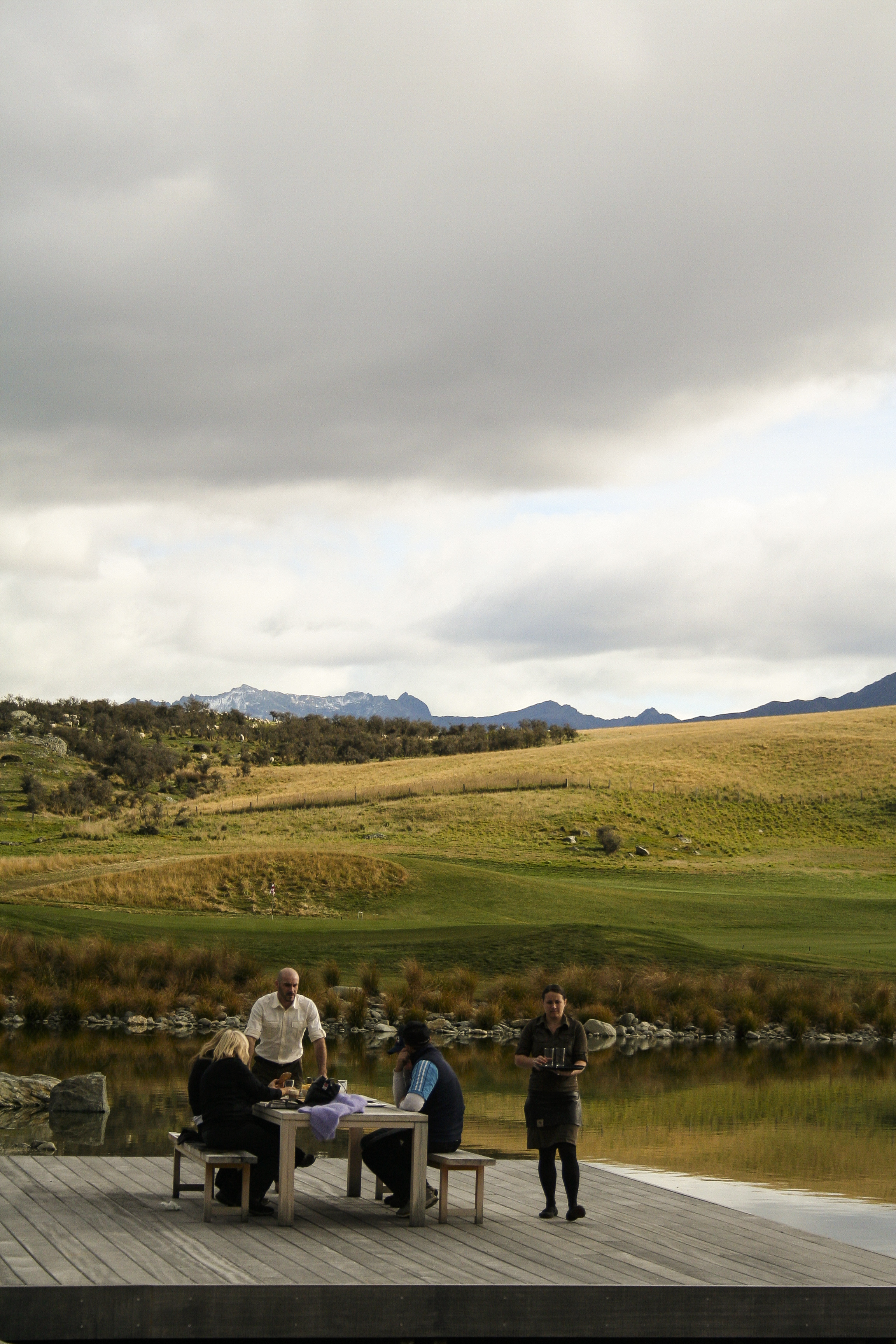 Jack's Point Clubhouse & Restaurant near Queenstown, New Zealand